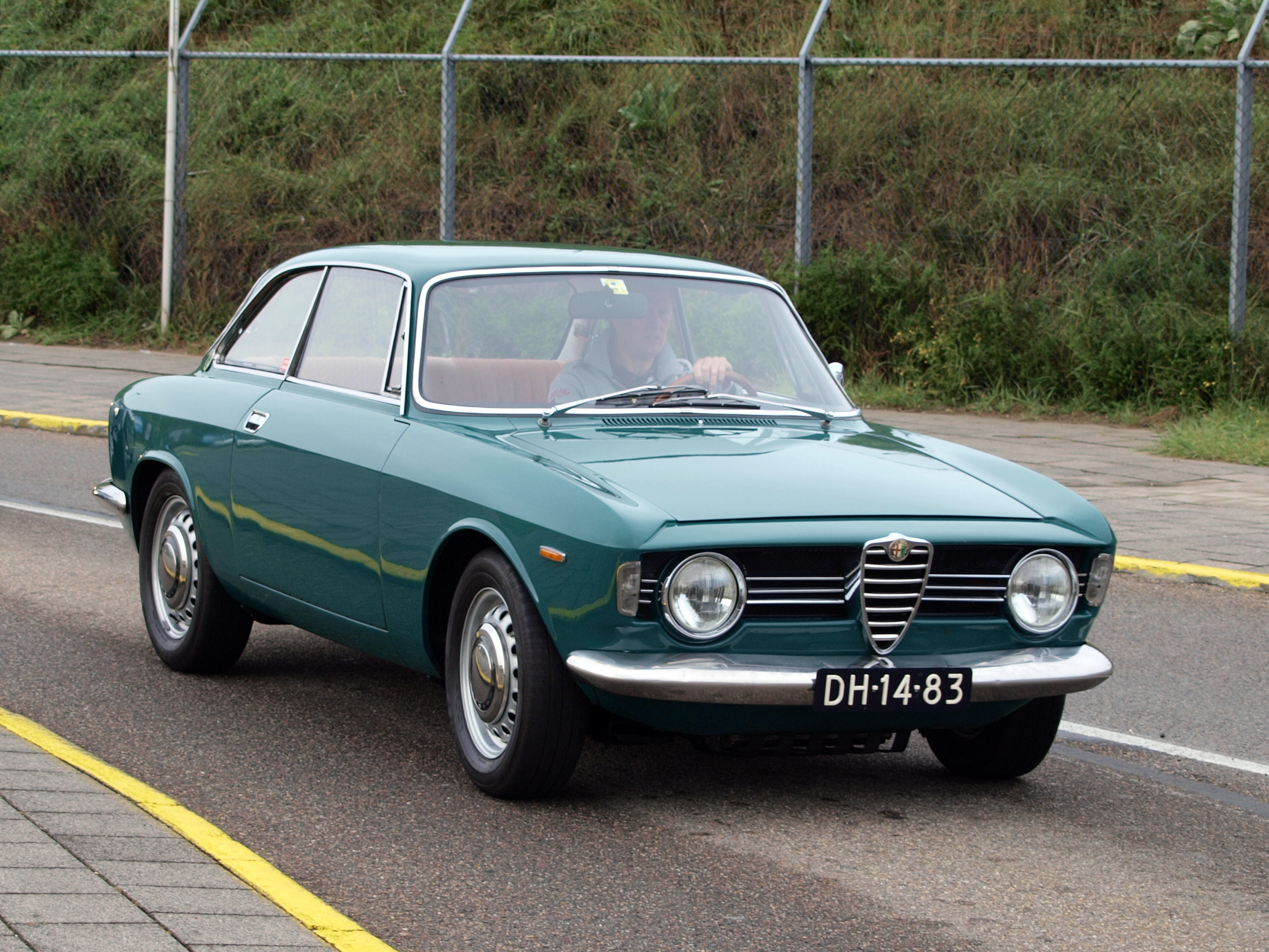 Photographed at the Nationaal Oldtimer Festival Zandvoort 2010, The Netherlands.